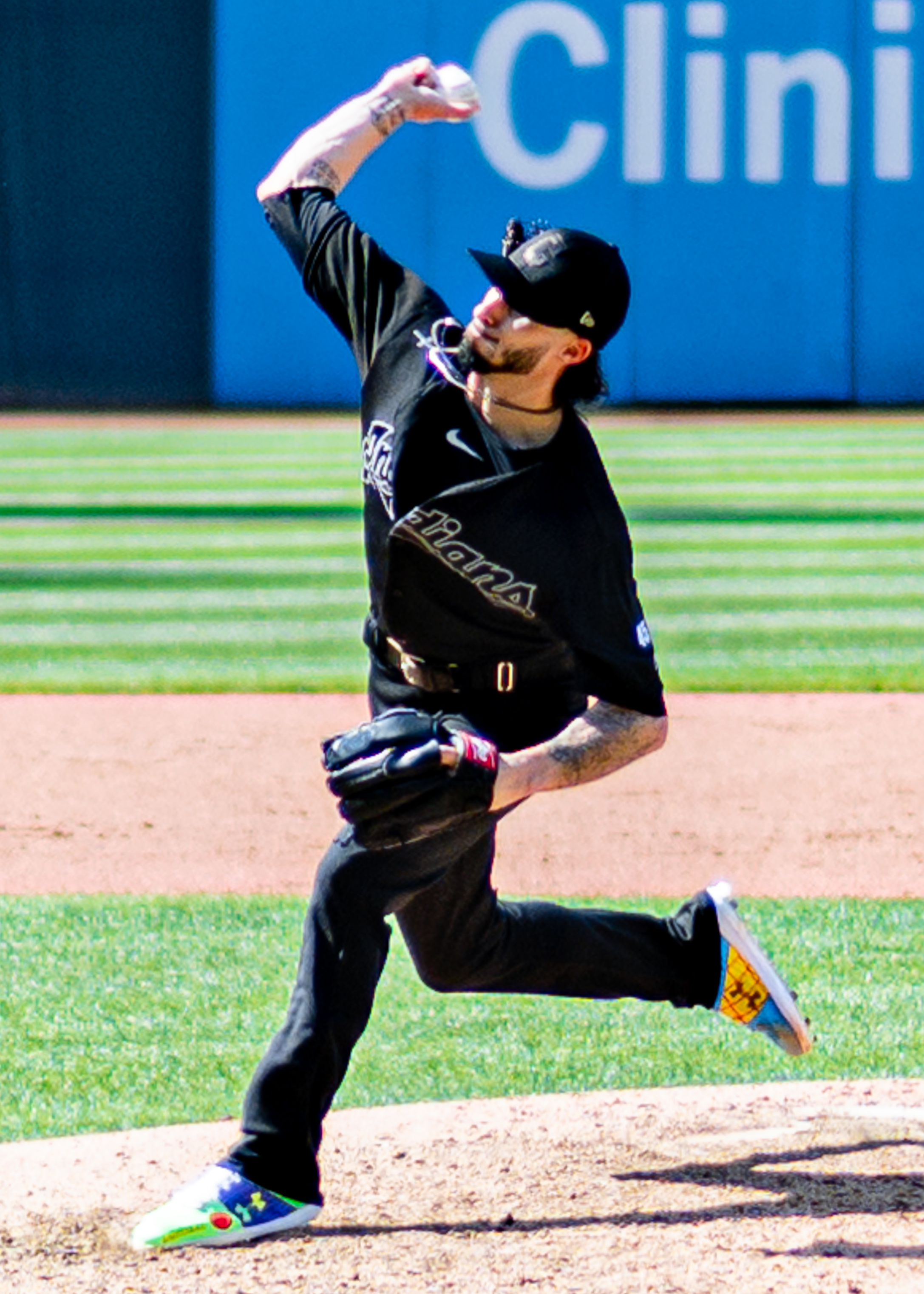 Hunter Wood delivers a pitch for the Cleveland Indians during a 2019 game at Progressive Field in Cleveland